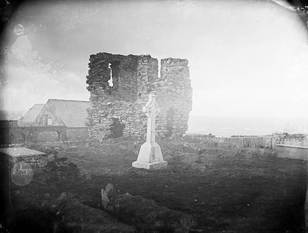 1 negative : glass, dry plate, b&w ; 16.5 x 21.5 cm.